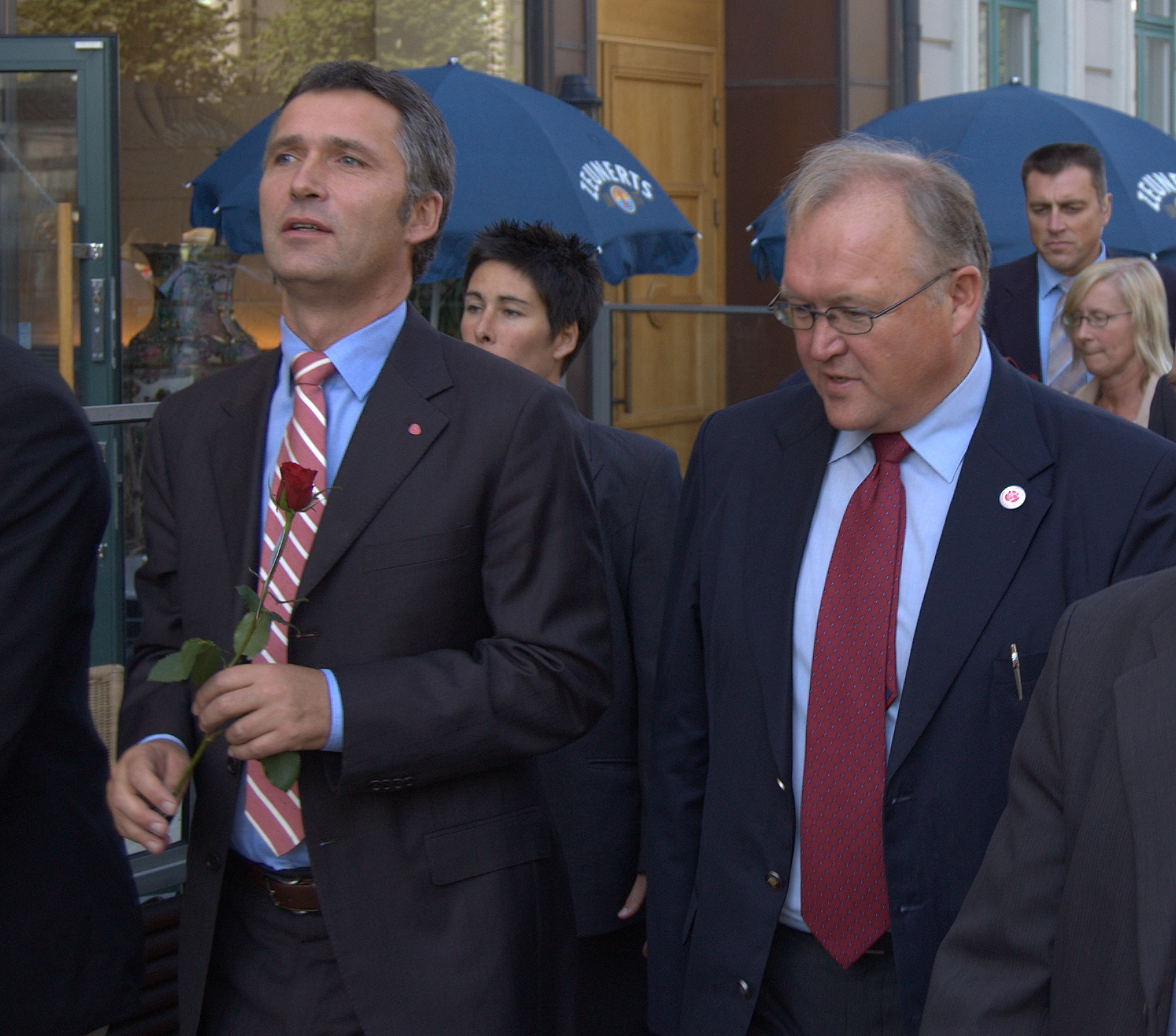 To the left, Jens Stoltenberg, leader of Norwegian Labour Party and also the 36th/38th Prime Minister of Norway. To the right, Göran Persson, Prime Minister of Sweden and leader of the Swedish Social Democratic Party. Image taken 5th of September 2006 in Gothenburg during the Swedish election campaign. Jens Stoltenberg is holding a rose, which is the official party symbol of the Swedish Social Democratic Party. Camera: Nikon D50 Location: The shopping mall Nordstan in Gothenburg, Sweden.